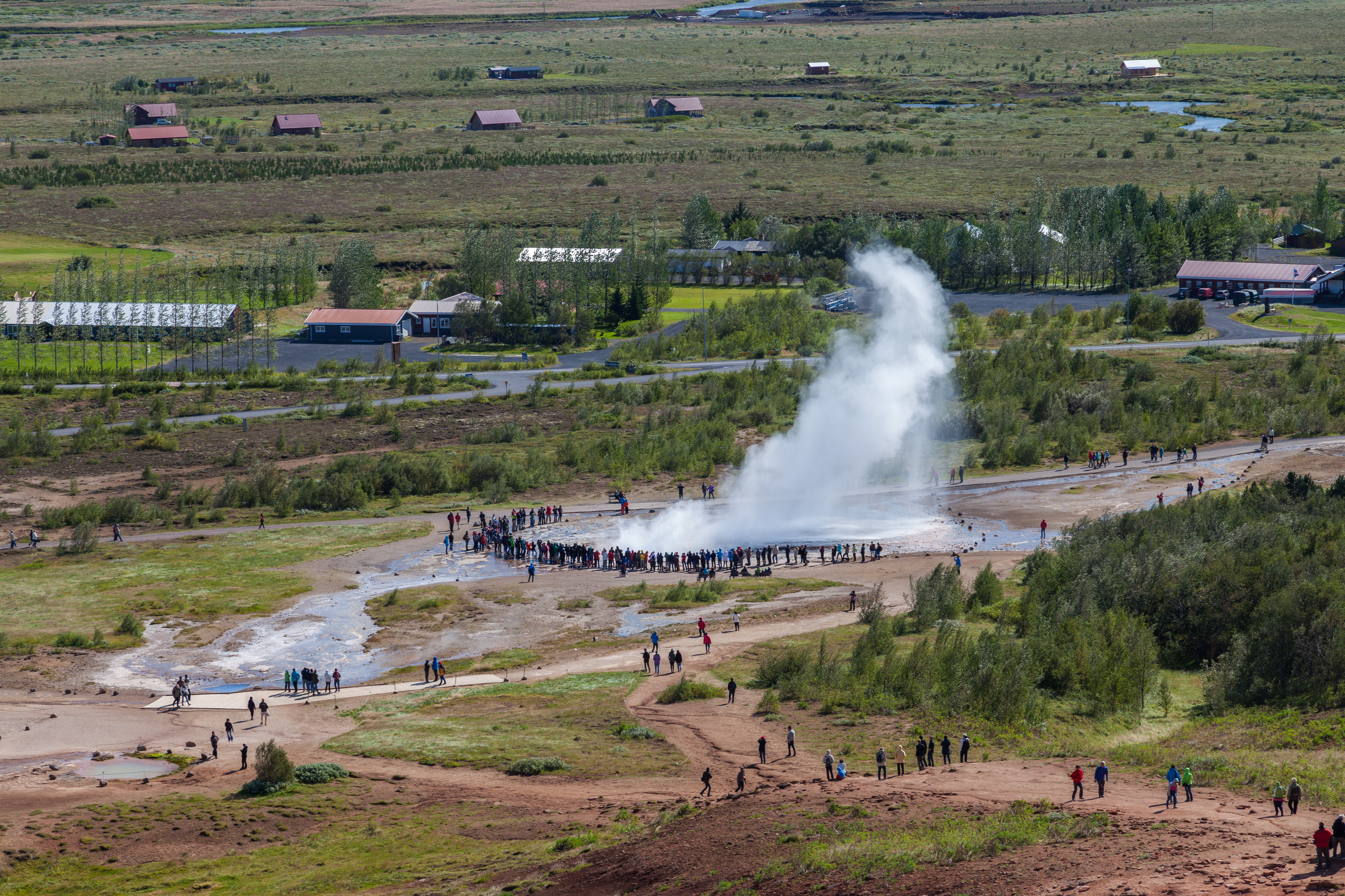 Strokkur, Geysir Geothermal Field, Suðurland, Iceland